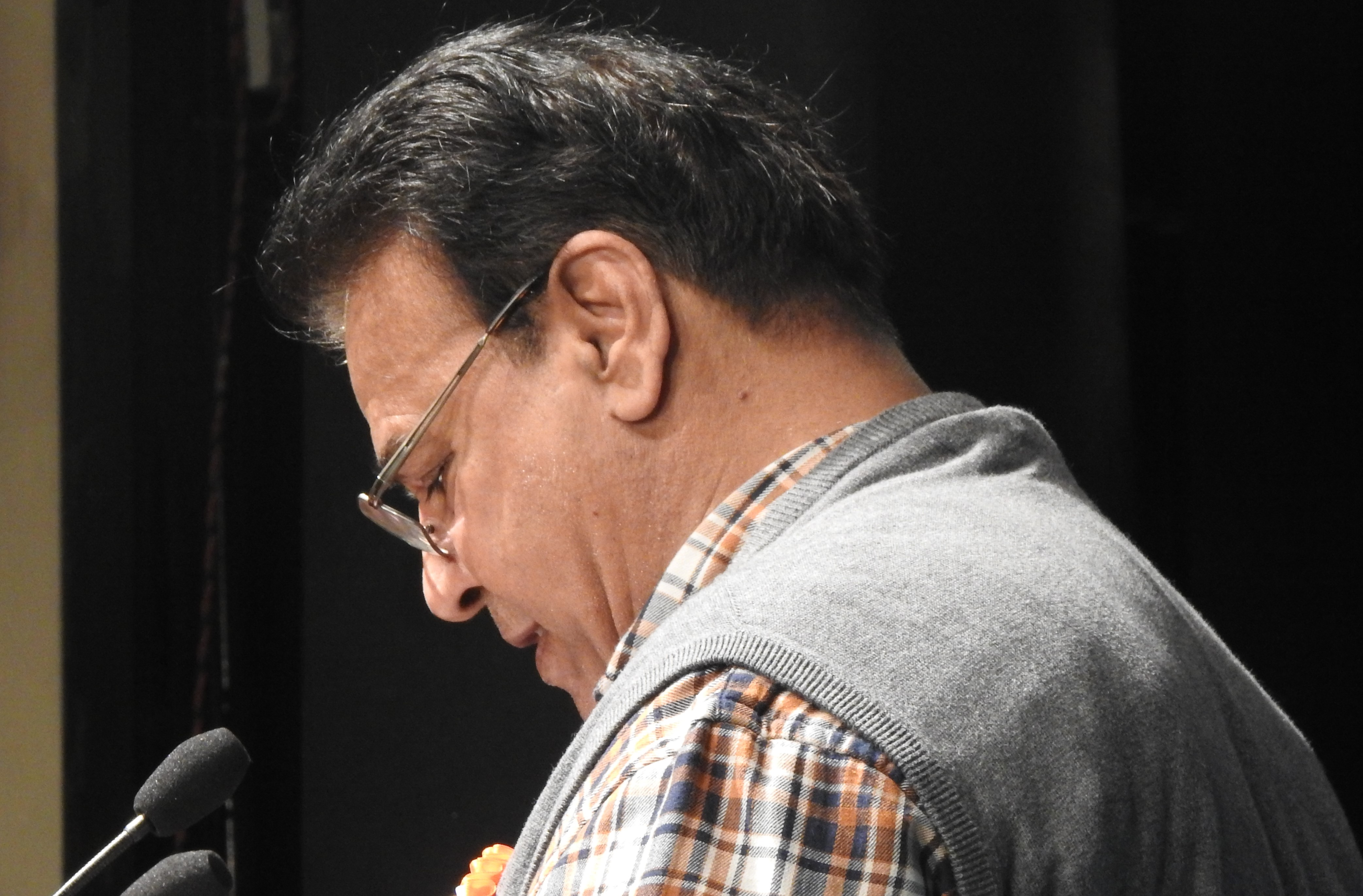 Punjabi language Poets' Meet is an event organised by Punjabi Literray Academy , Delhi annually on occasion of Republic Day (India) . It is part of series of celebrations on this day . Similar event is organised on 15 August , the Independence day of Indian Nation .